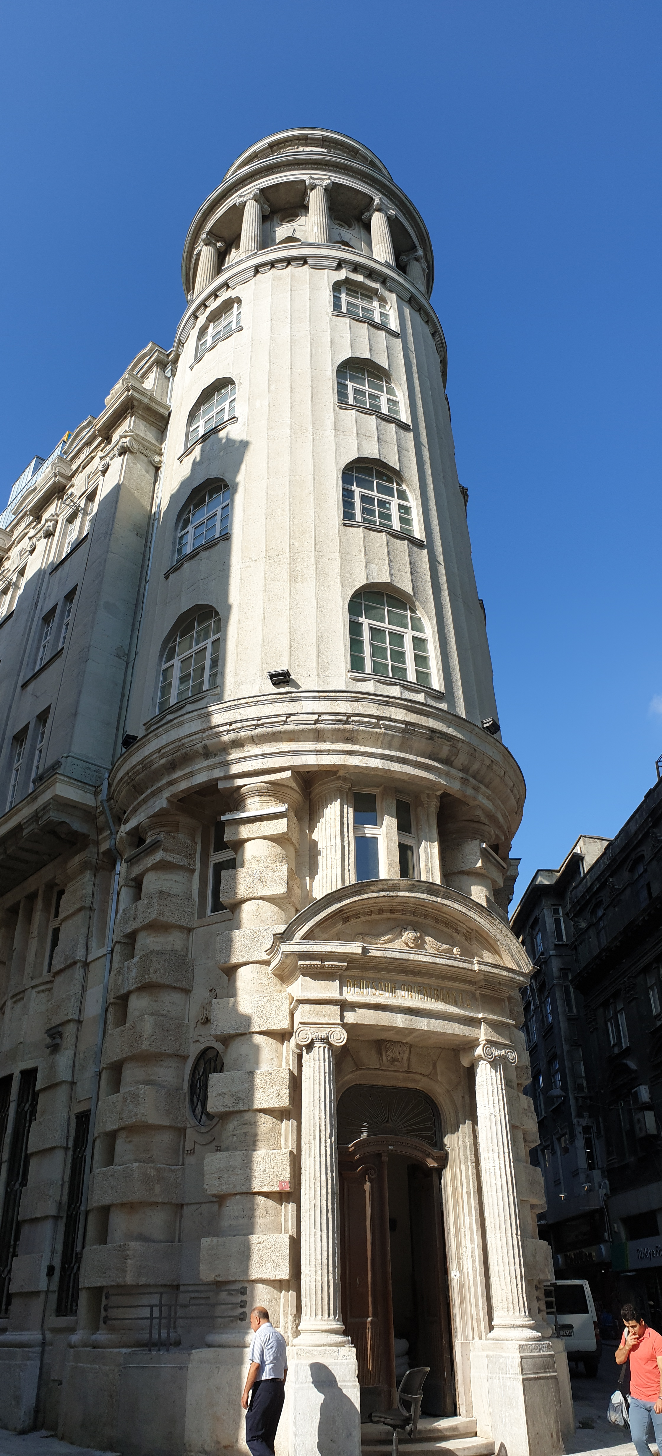 Germanya Han, Deutsche Orientbank binası